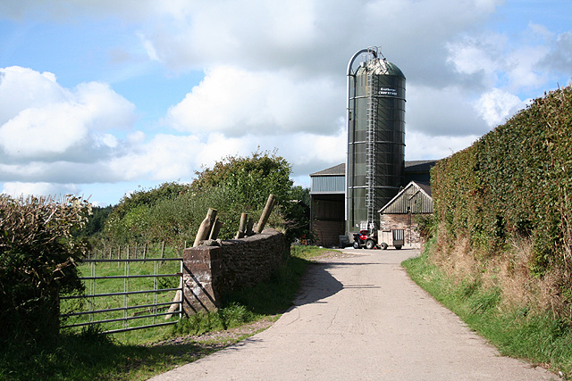 North Molton: Higher North Radworthy. Looking north west towards a new silo